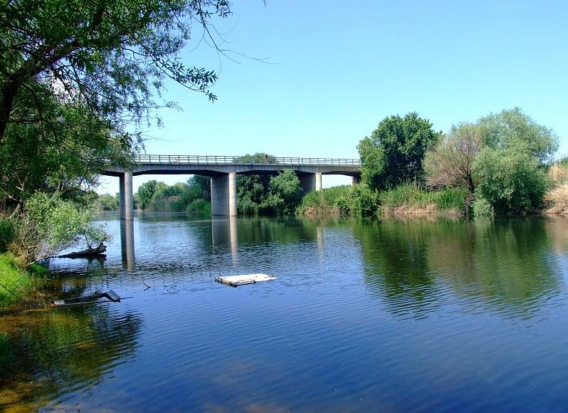 en: River Gediz in its downstream section crossing İzmir Province in western Turkey